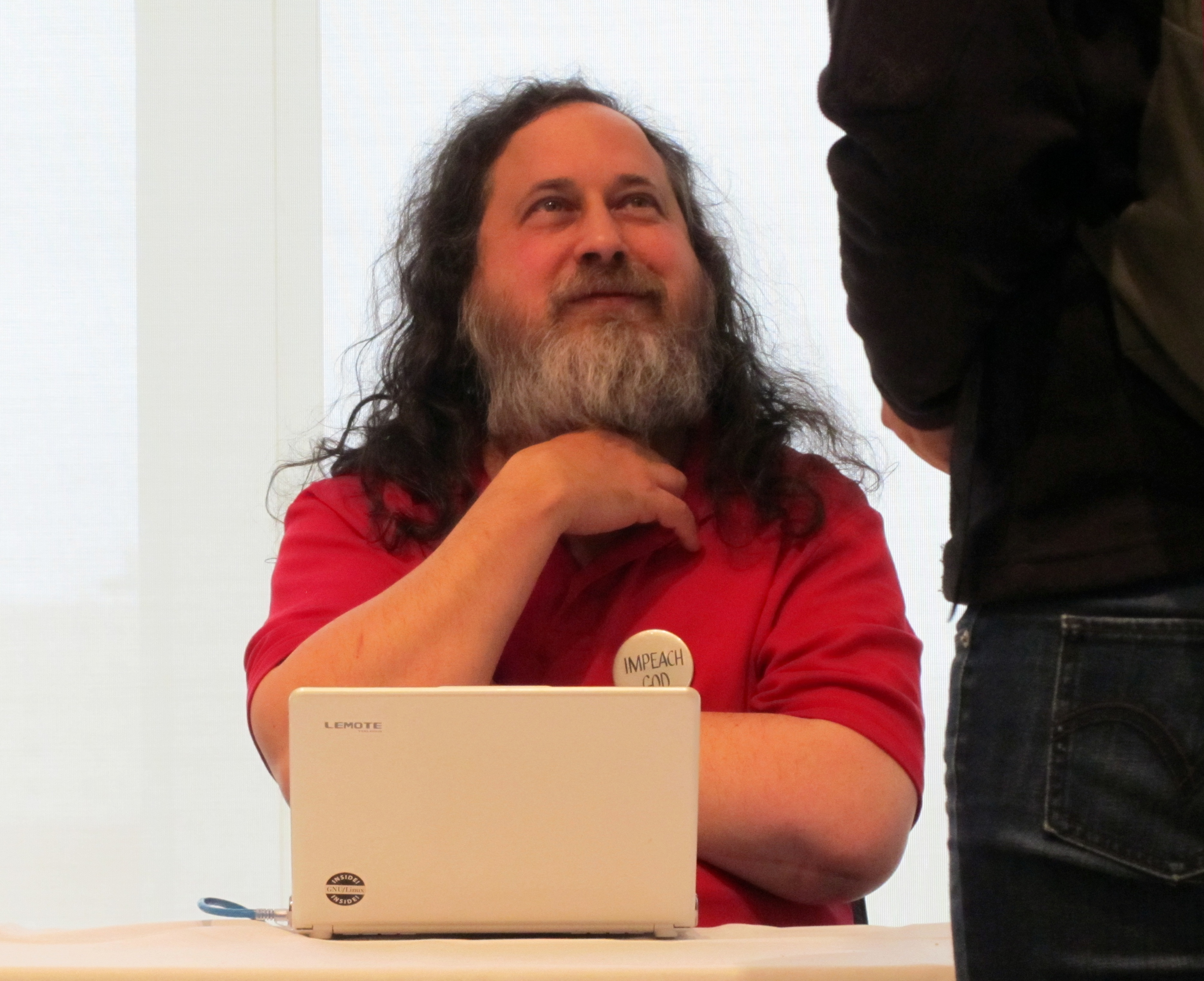 Richard Stallman conversing with an attendee of Libreplanet 2012 conference.